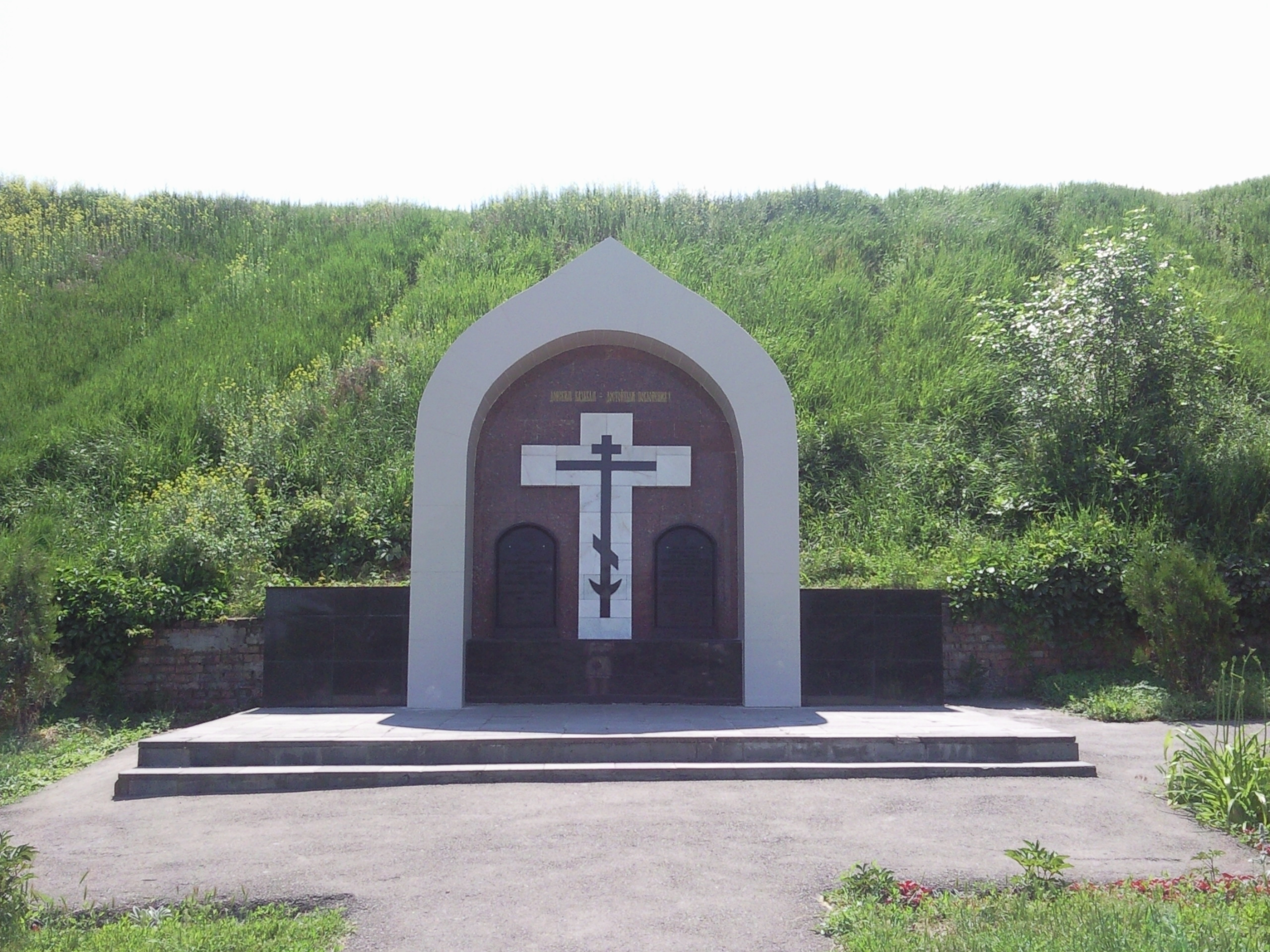 Memorial in honour of cossacks who have lost during the Azov Sitting in Azov